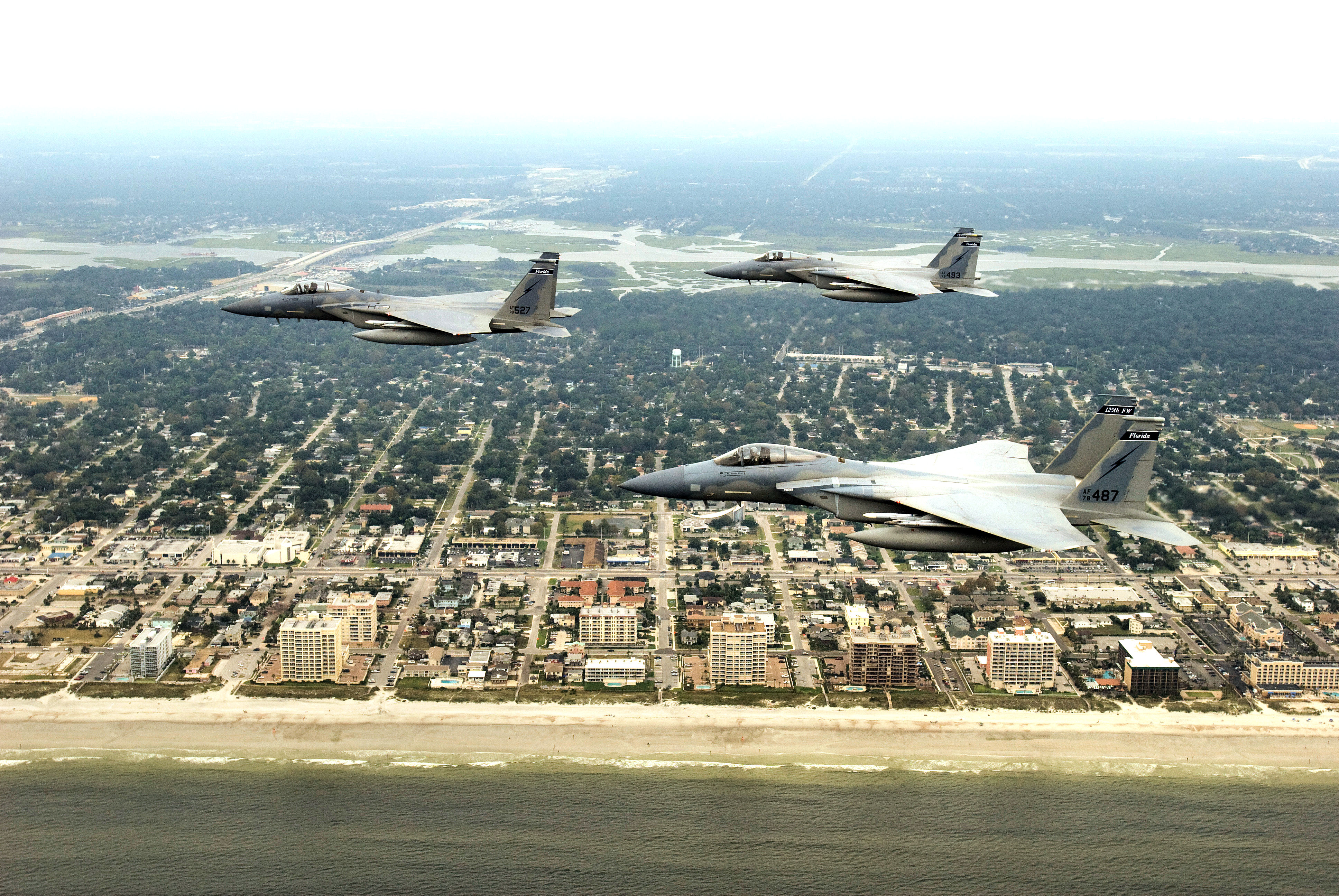 U.S. Air Force McDonnell Douglas F-15C-21-MC Eagle fighters (s/n 78-487, 78-527, 78-493) from the 159th Fighter Squadron, 125th Fighter Wing, Florida Air National Guard, in flight over Jacksonville, Florida (USA), in 2009.